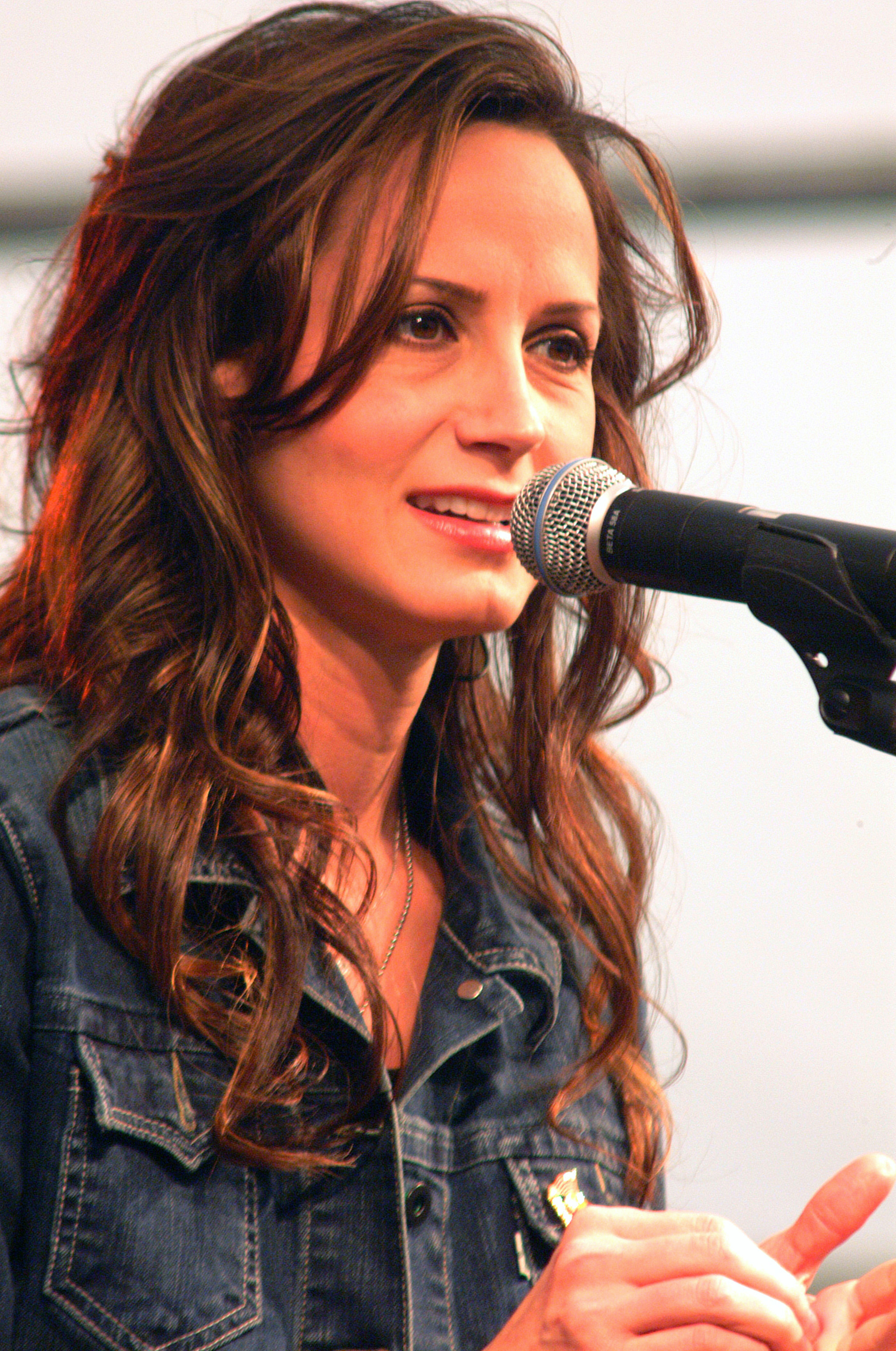 Chely Wright, a country music recording artist, performs for U.S. Army Soldiers and family members at a party following the 1st Armored Division's welcome home ceremony March 6, 2007, on the Ray Barracks parade field in Friedberg, Germany. The 1st AD ret urned from Iraq in Feb. 2007 after a 14 month deployment. (U.S. Army photo by Martin Greeson) (Released) (Released to Public)